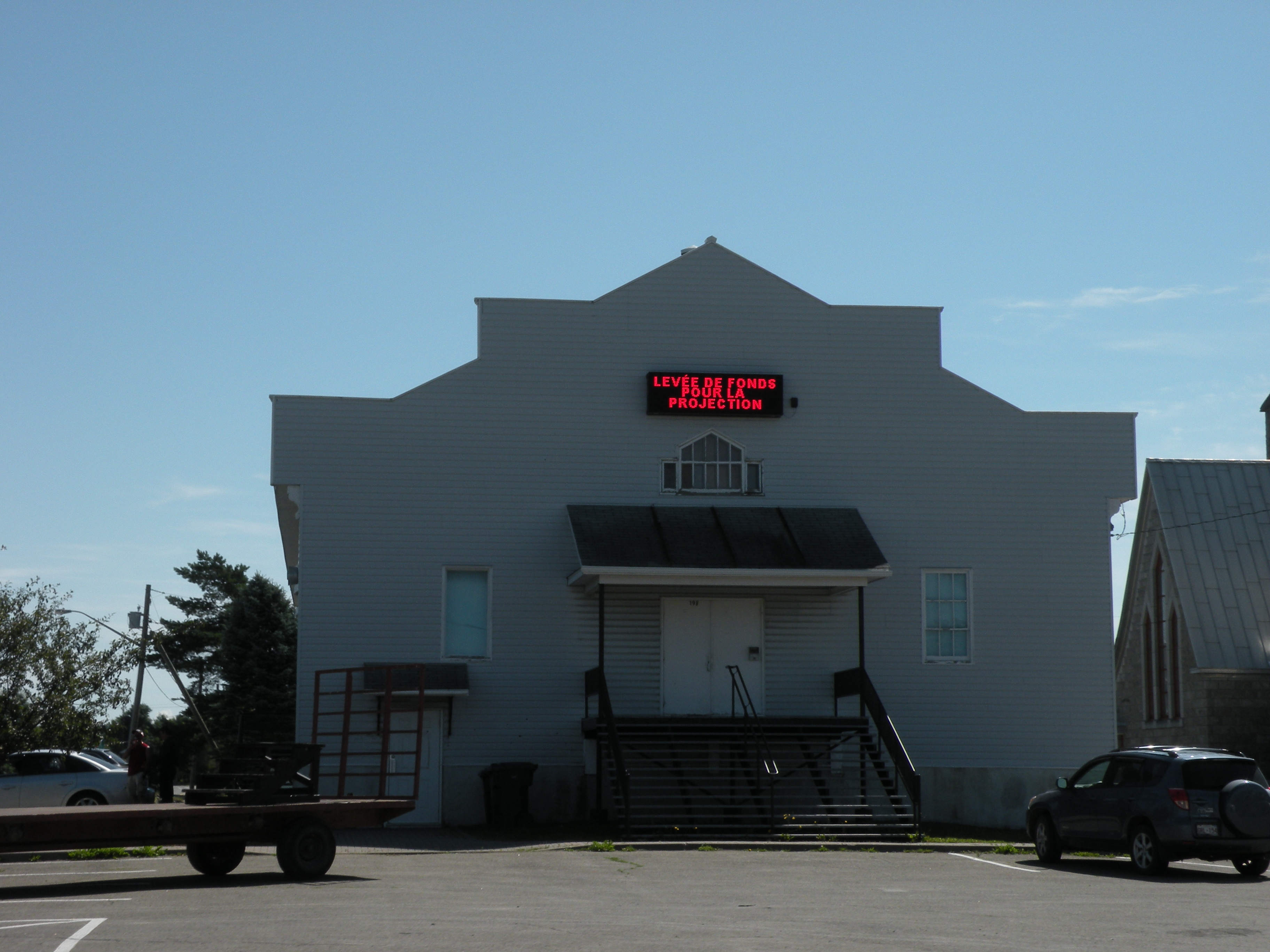 Montcalm Theatre in Saint-Quentin, New Brunswick, Canada.